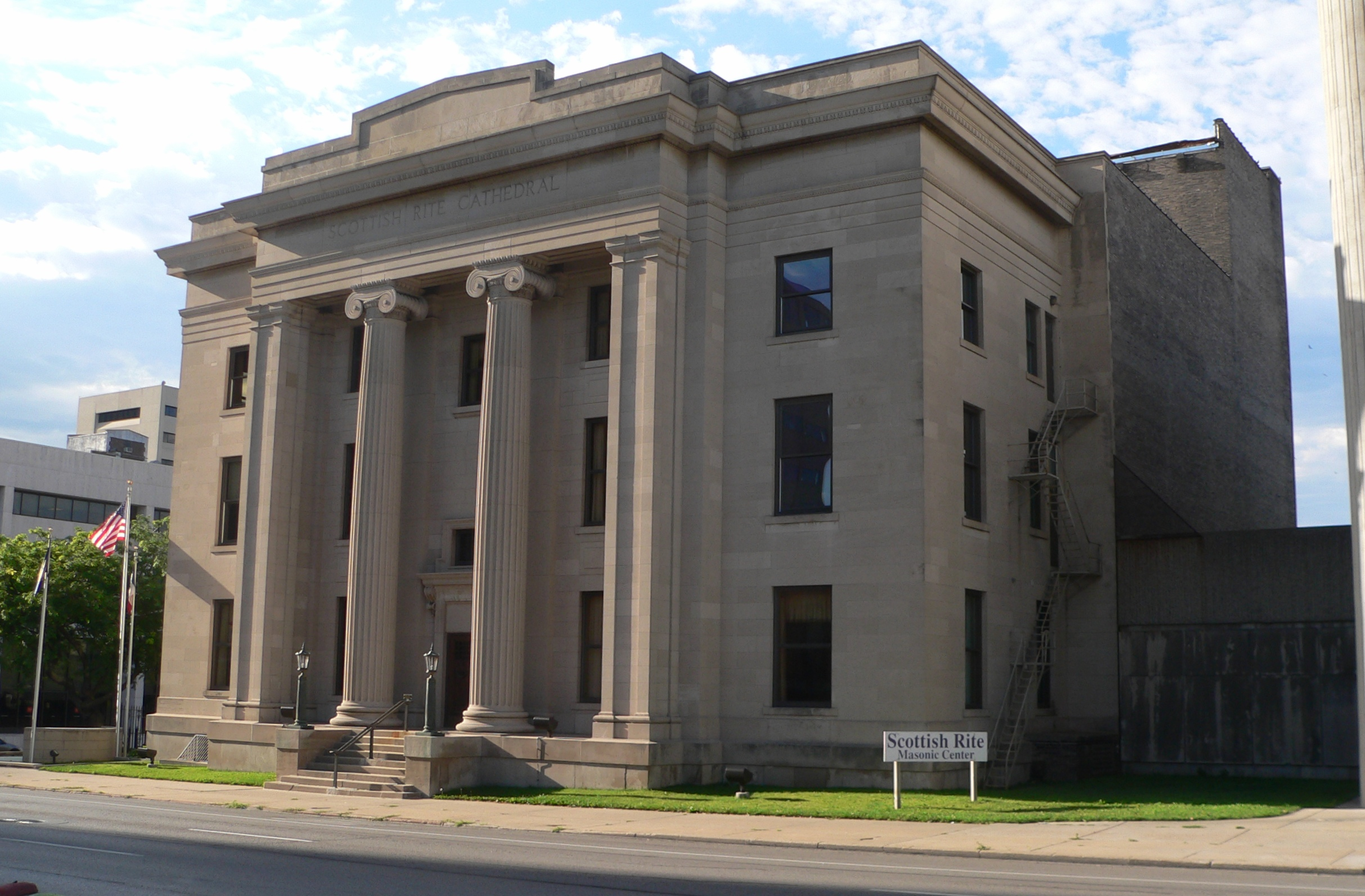 Scottish Rite Cathedral, located at 202 S 20th Street (southwest corner of 20th and Douglas Streets) in Omaha, Nebraska; seen from the northwest, across Douglas.